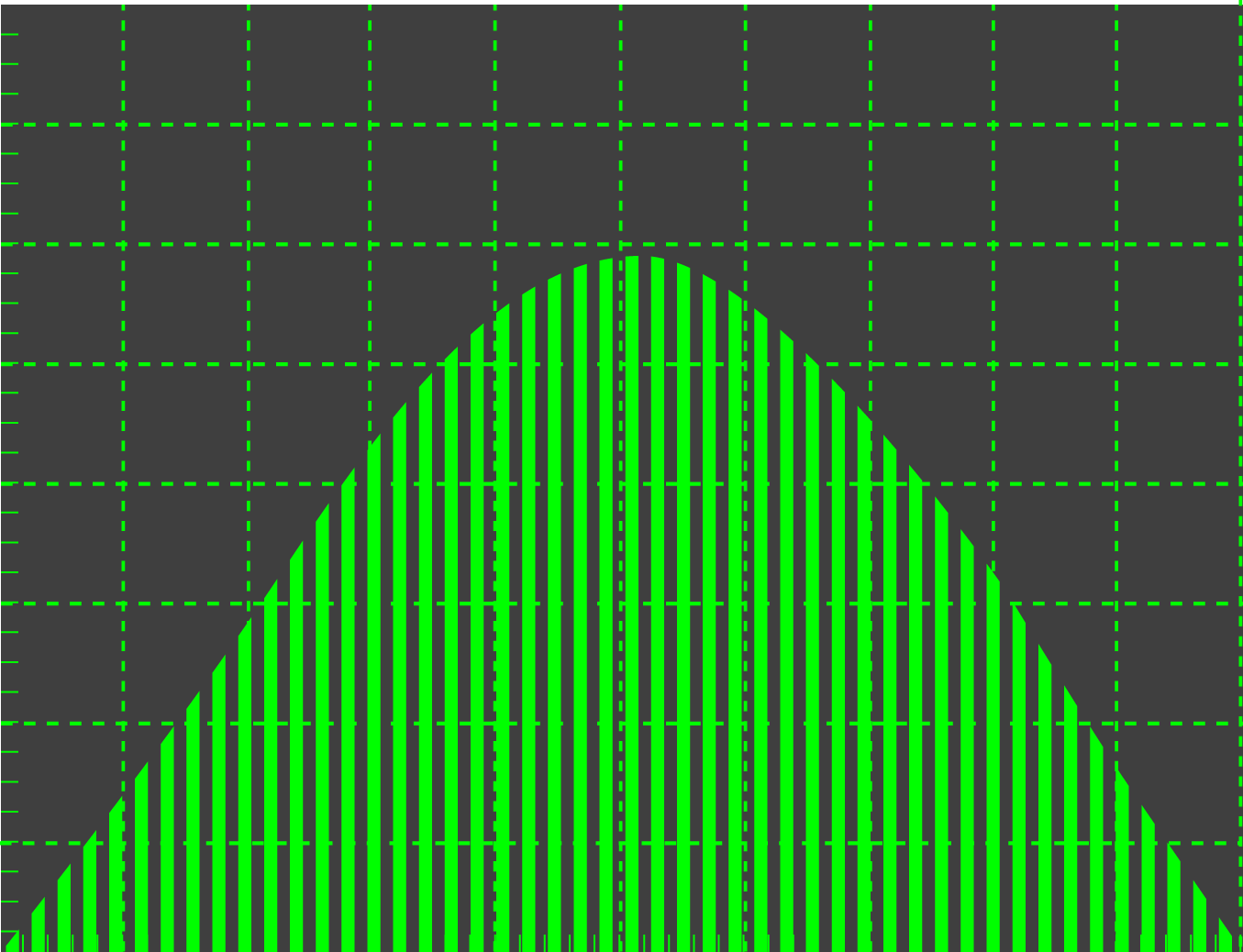 This is the spectrum of a typical radar signal with a square pulse profile. It shows the Fine Spectrum, eg only a limited part of the bandwidth of the spectrum may be seen, but the individual lines may be clearly seen (after TJC - English WP)